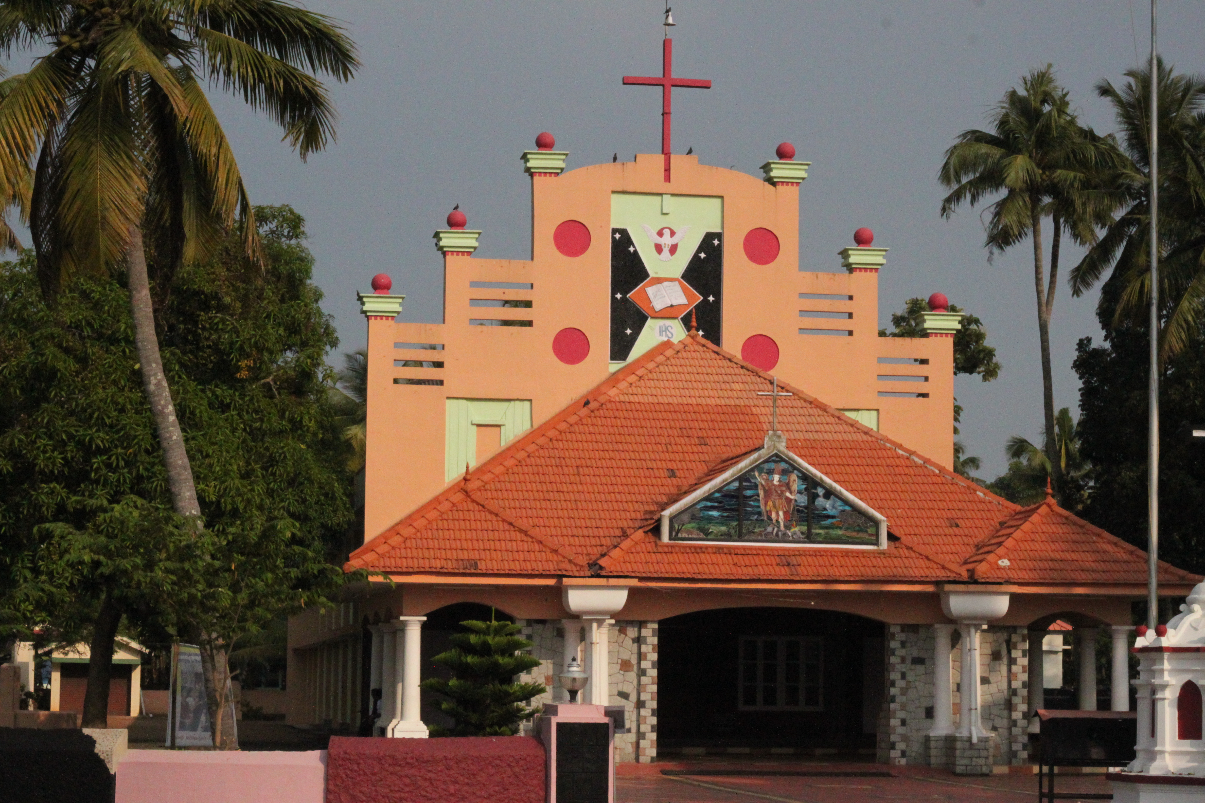 The original church was more than 100 years old. This is the rebuilt church